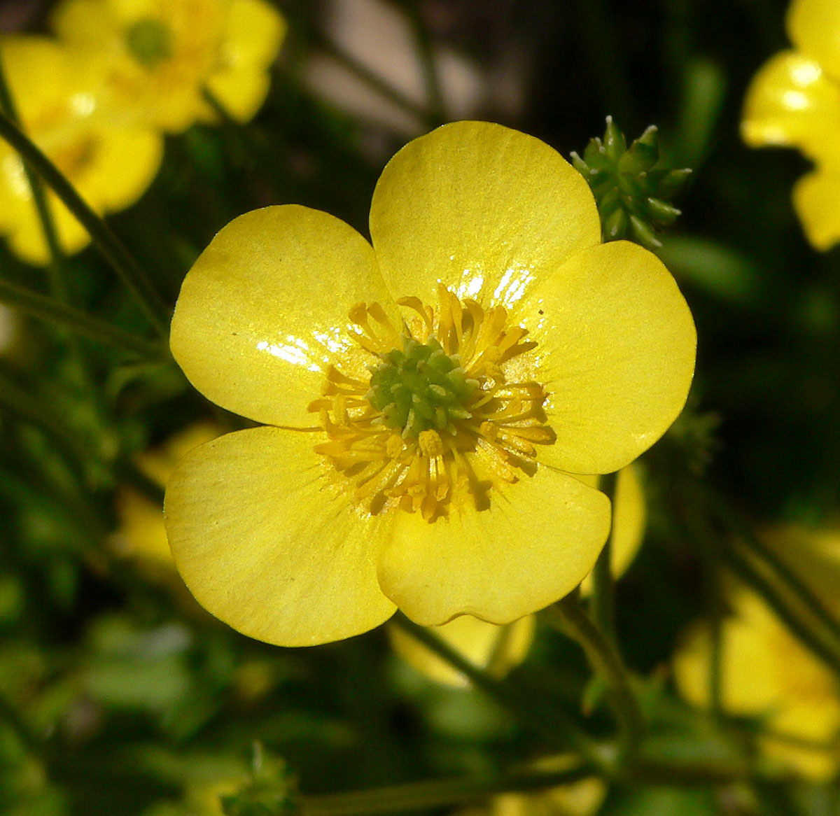 Ranunculus japonicus at the University of California Botanical Garden, Berkeley, California